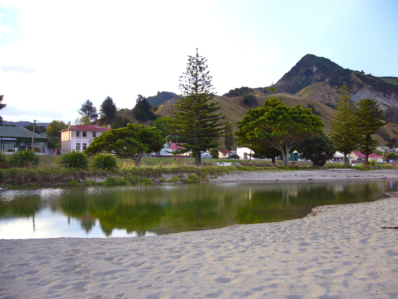 Tokomaru Bay - Marotiri and Mangahauini